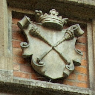 Coat of arms of the Jagiellonian University. Collegium Maius (façade).